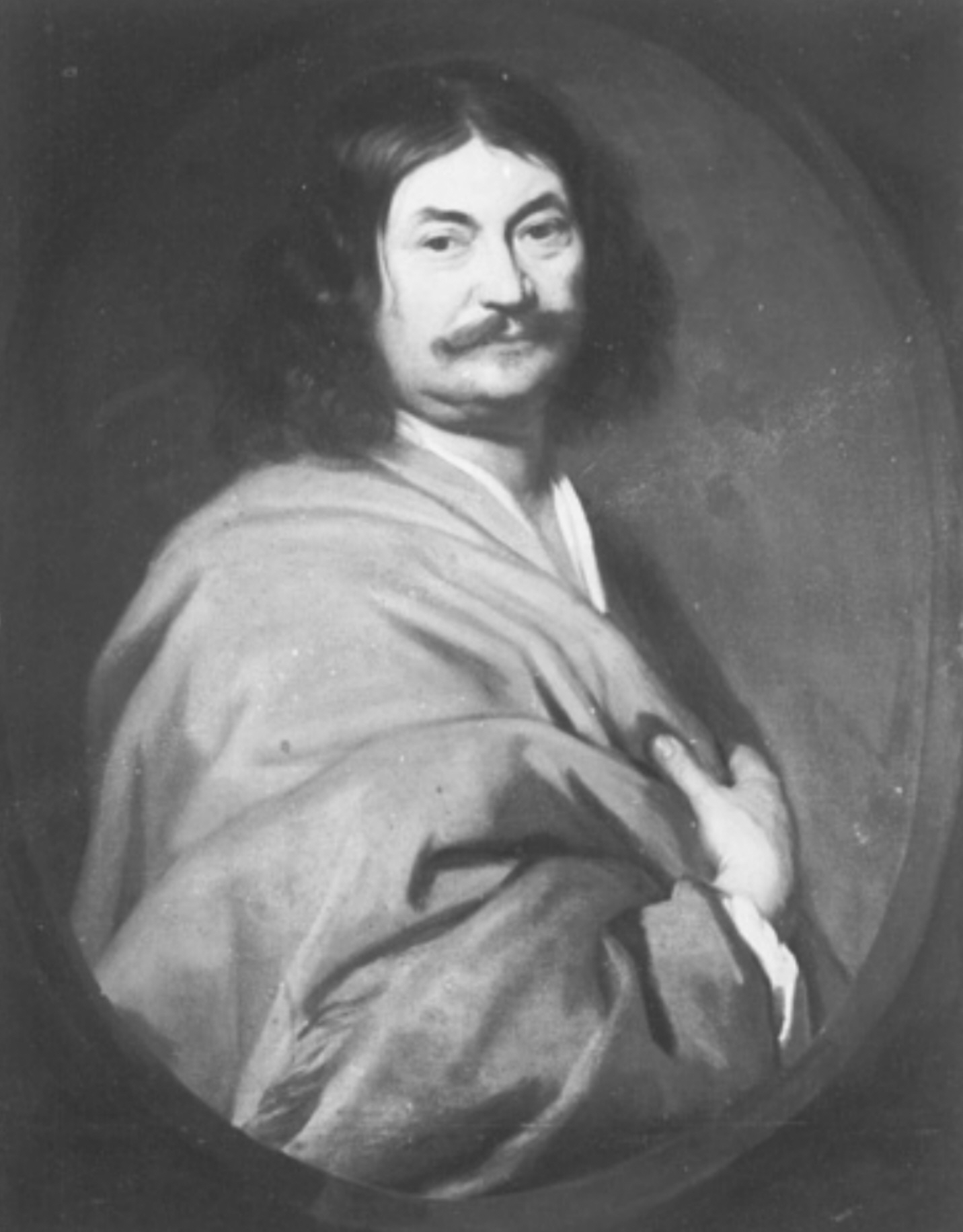 Georg Schweigger (1613–1690) Alternative names Schweiger, Jörg; Schweiger, Georg; Schweikard, GeorgDescriptionGerman sculptorDate of birth/death 6 April 1613 13 June 1690 Location of birth/death Nuremberg NurembergAuthority control : Q1505976 VIAF: 42630766 ISNI: 0000 0000 6676 9374 ULAN: 500073226 LCCN: nr2003011928 GND: 118612131 WorldCat creator QS:P170,Q1505976